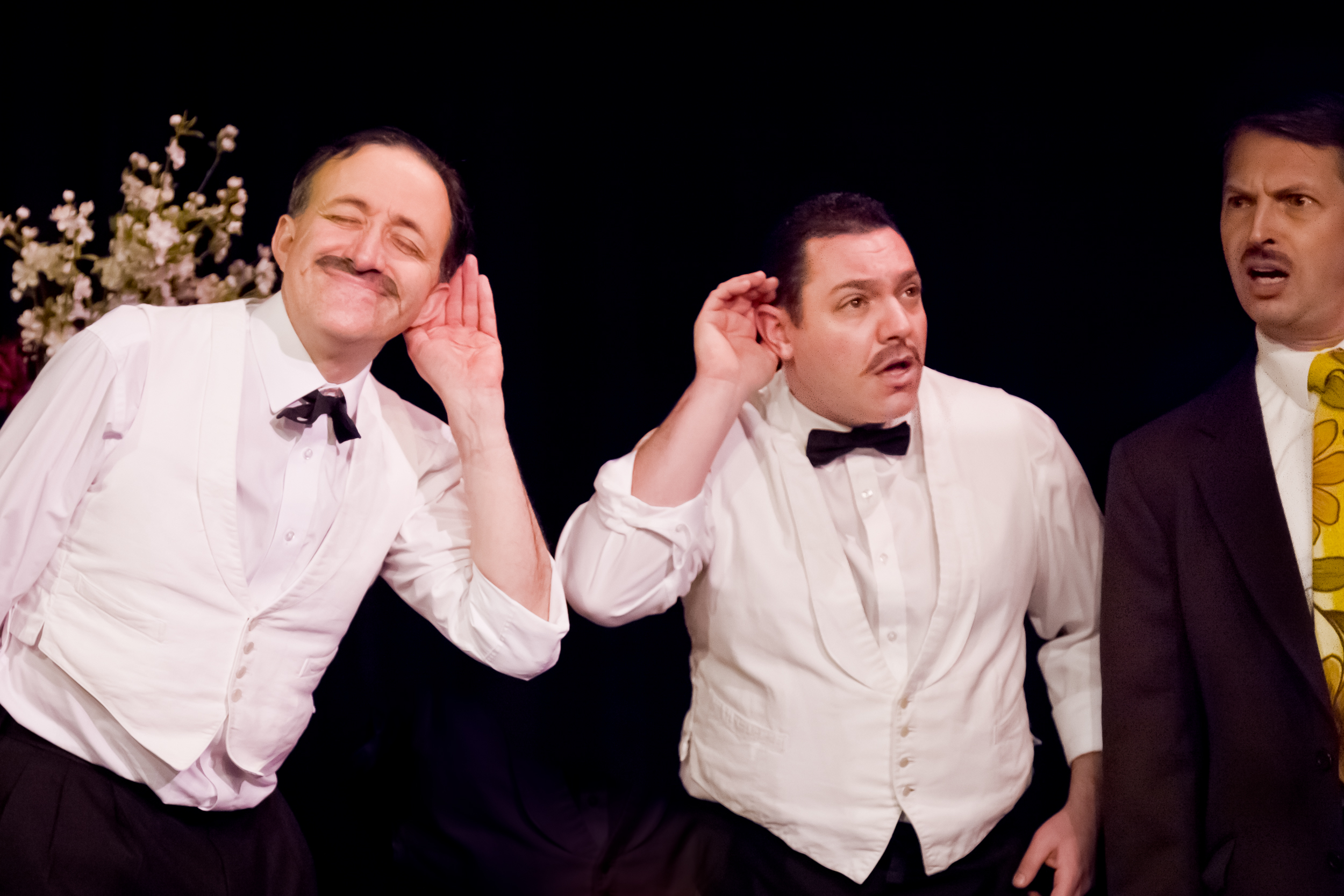 The Dromios listen on the opposite sides of the door, as Antipholus of Ephesus returns home and is refused entry to his own house. A 2011 production by OVO theatre company, St Albans, UK